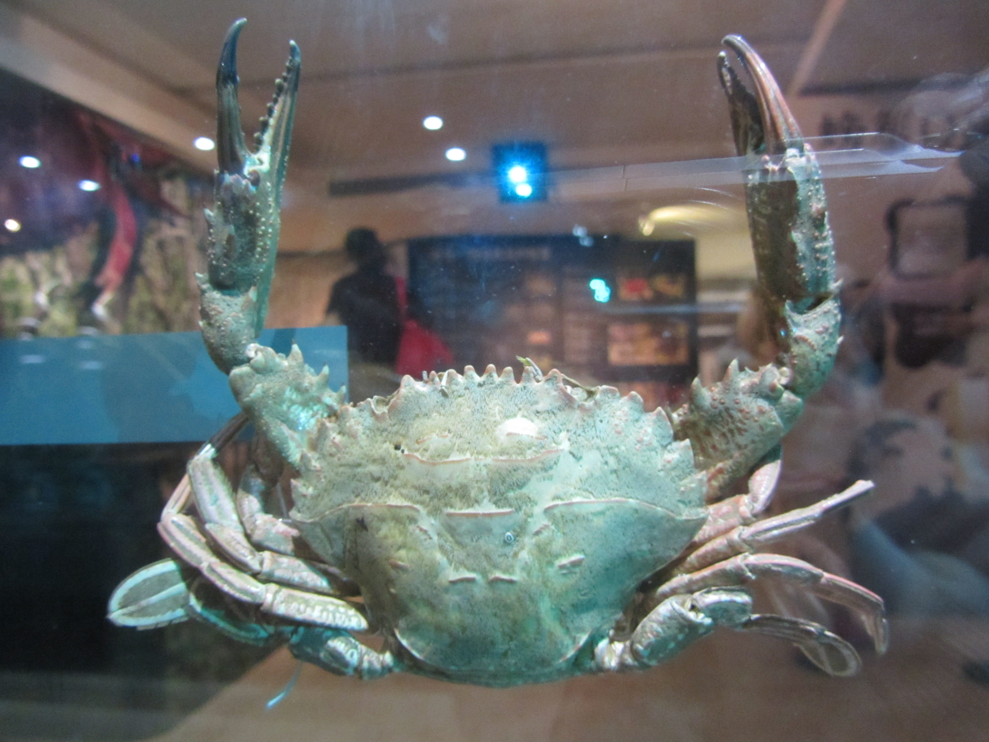 Specimen of Charybdis natator